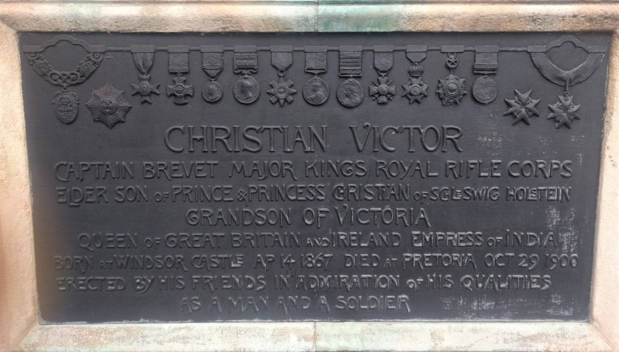 Monument to Prince Christian Victor of Schleswig-Holstein in Thames Street, Windsor, Berkshire, England.